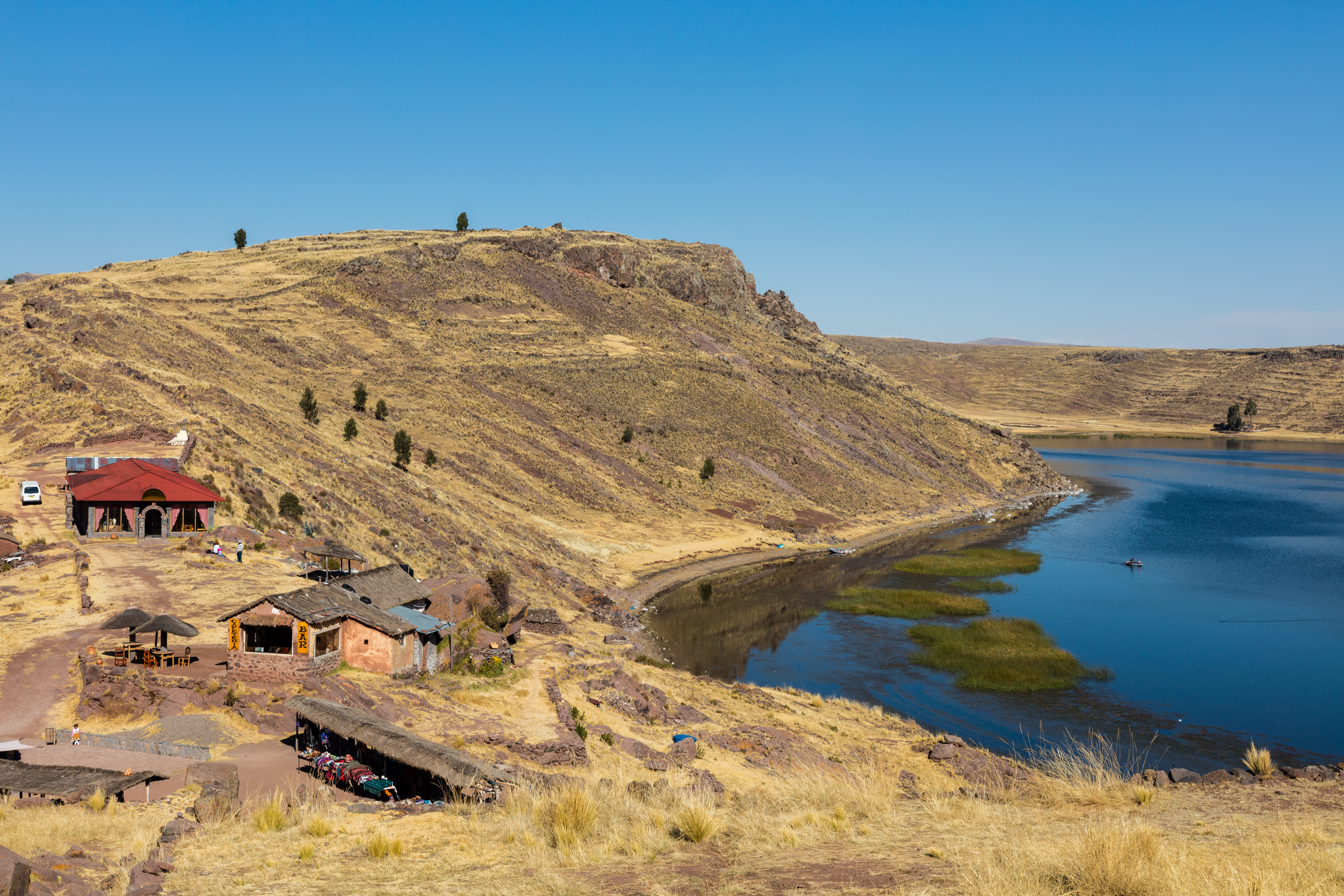 Sillustani, Peru